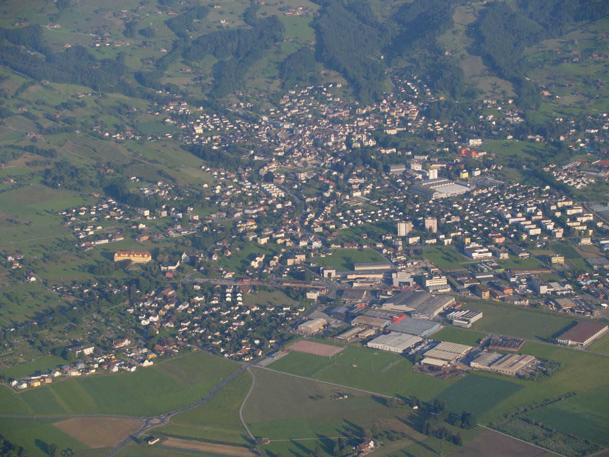 Aerial view of the swiss city of Altstätten